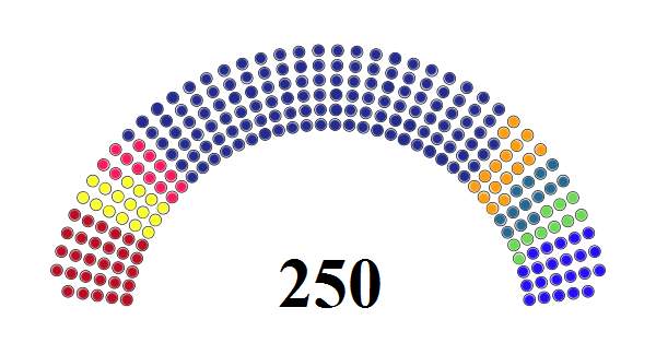 Serbian Parliament 2016